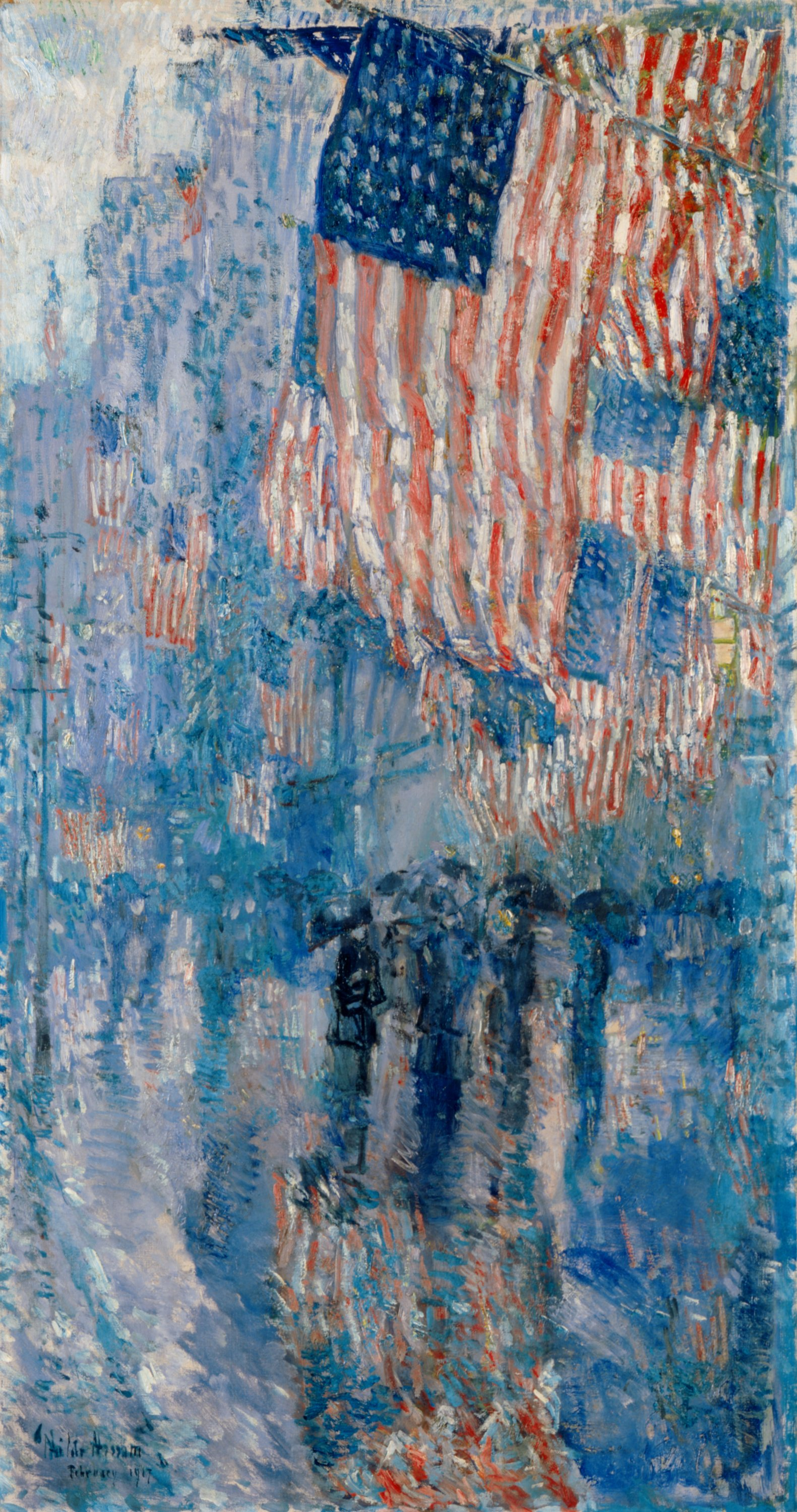 "The Avenue in the Rain," oil on canvas, by the American painter Childe Hassam. 42 in. x 22.25 in. Courtesy of The White House Collection, The White House, Washington, D. C. Image courtesy of The Athenaeum. Notes from Kloss, William, et al. Art in the White House: A Nation's Pride. Washington, D.C.: The White House Historical Association, 2008 "The Avenue in the Rain . . . is one of some 30 related paintings of flag-decorated streets that the artist [Childe Hassam] produced between 1916 and 1919, during and immediately after the First World War. . . . [T]hey are intensely patriotic works . . . . ". . . The avenue is Fifth Avenue, frequently decorated with American flags as American sentiment moved . . . from isolationism toward intervention. The artist's most striking device here is the projection of flags into the picture from points of unseen anchor beyond the frame . . . . In one sense the flags become the surface of the painting . . . . "Observing shadows to be bluish rather than black, the Impressionists often became mannered in their use of blue, making it a dominant hue in many of their paintings. . . . [H]ere the rain and the rain-slicked streets give [Hassam] an excuse for a literal wash of blue and blue-gray, enhanced by a profusion of reflections."